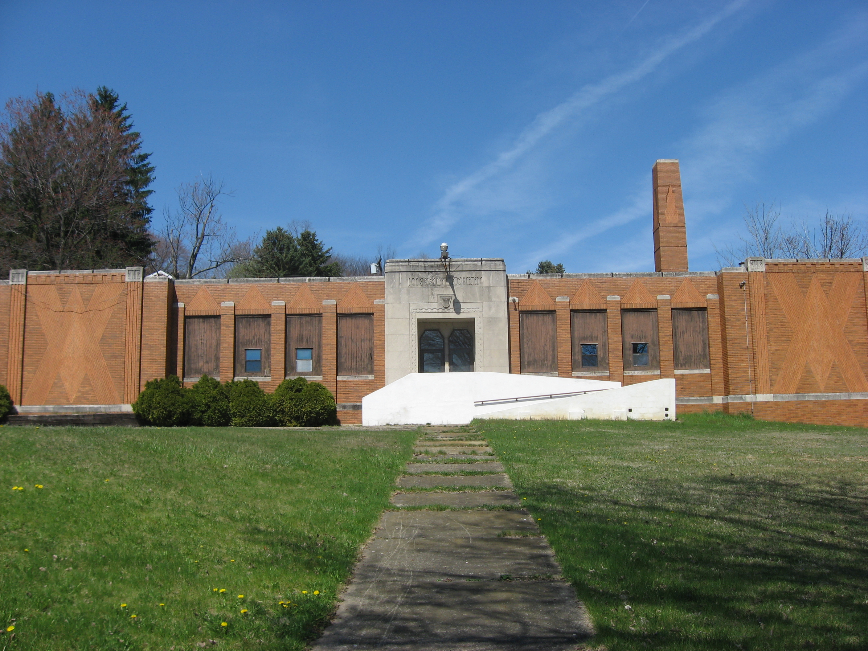 Former Liberty School in West Mayfield, Pennsylvania, United States, located along the south side of the 37th Street Extension (Pennsylvania Route 251) between 4th Avenue and Harbison Road.